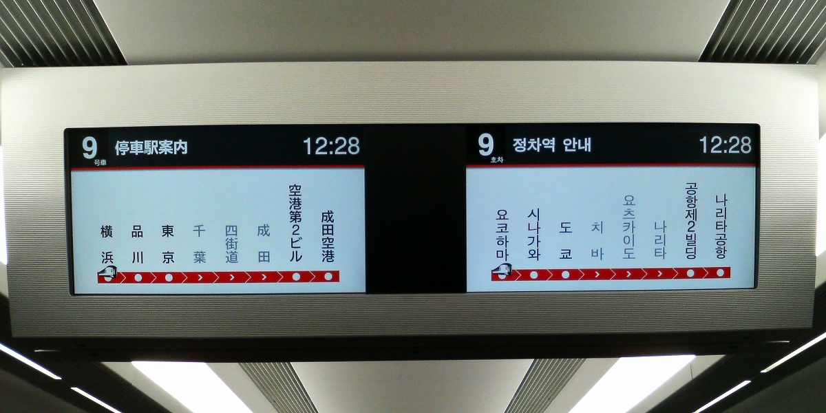 Interior of JR East E259 series "Narita Express" (display monitor).